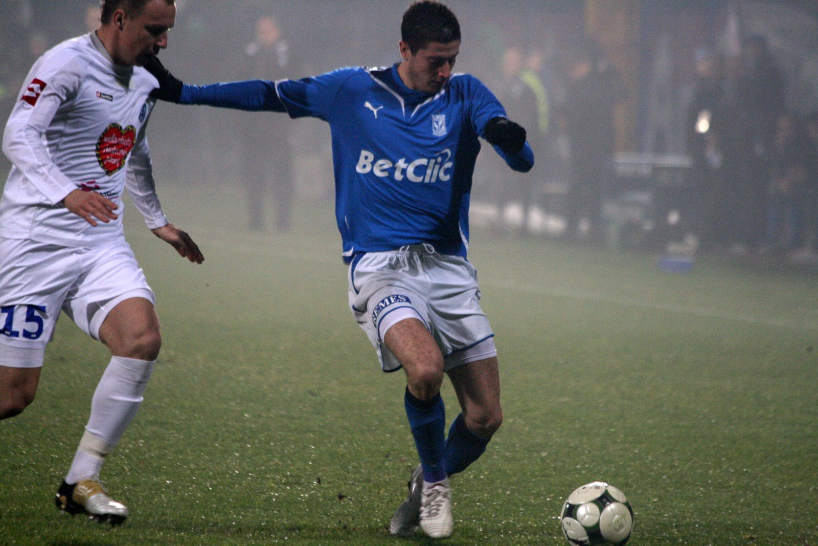 Robert Lewandowski's shot against Ruch Chorzow in Polish 1st league.